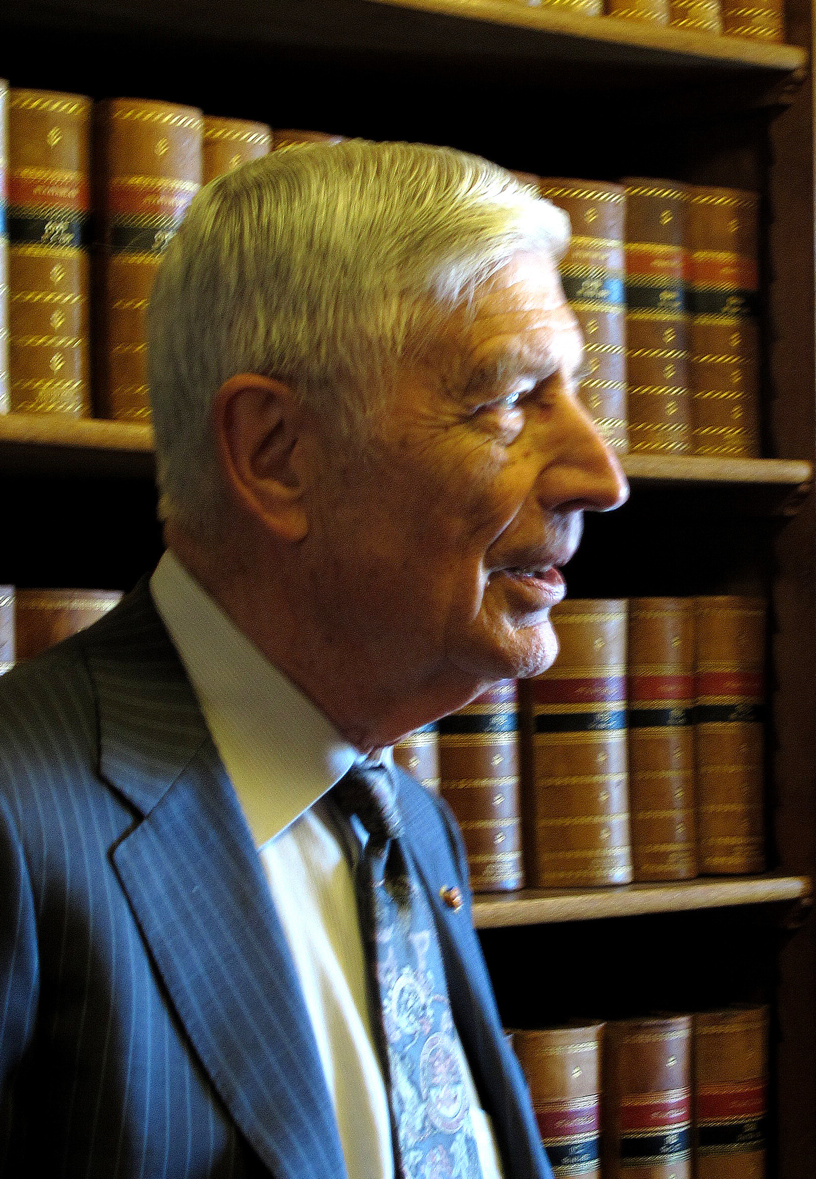 ex-Prime Minister Dries van Agt in Het Torentje, visiting Mark Rutte